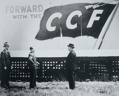 Tommy Douglas standing under a Co-operative Commonwealth Federation billboard with C.M. Fines and Clarence Gillis after the historic 1944 Saskatchewan provincial election that swept the CCF to power.